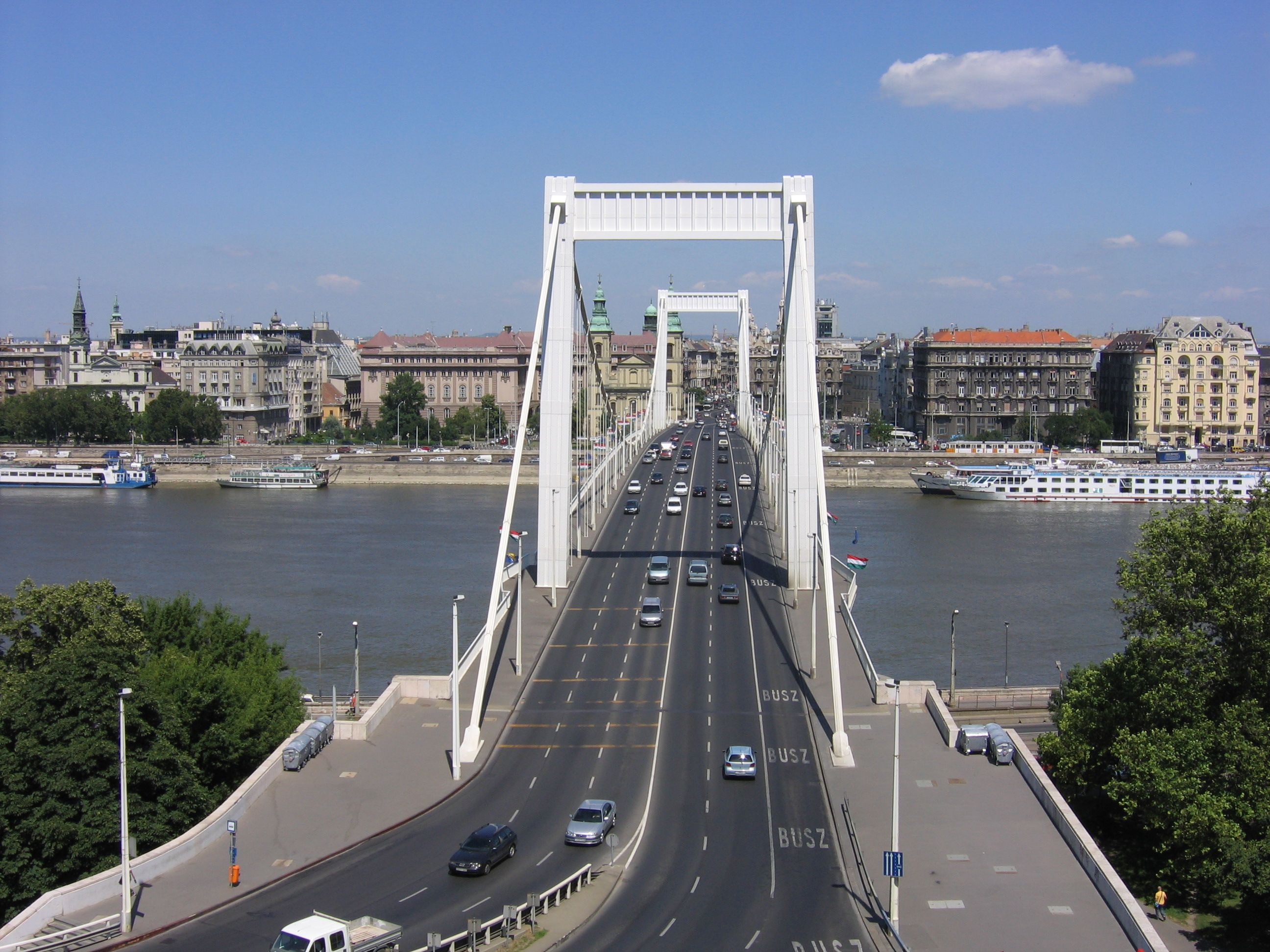 View on Budapest